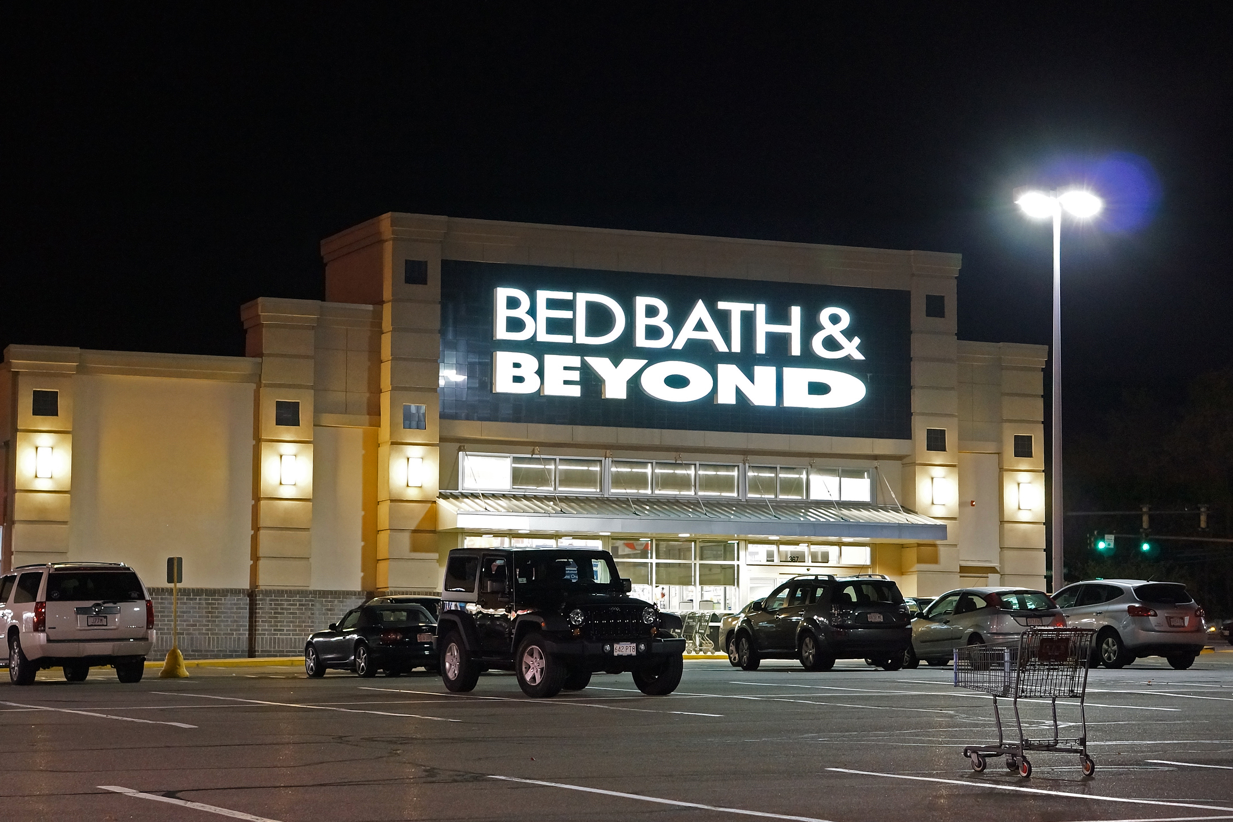 Bed Bath & Beyond, Saugus, Massachusetts USA.